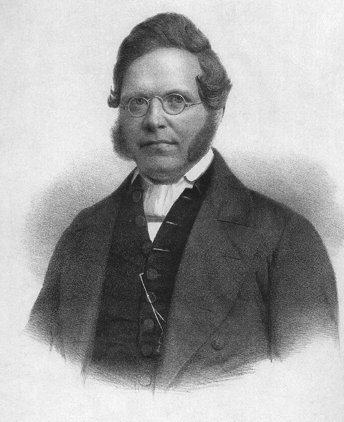 Portrait of the theologian and socialist agitator Rudolph Dulon by Friedrich Jentzen.